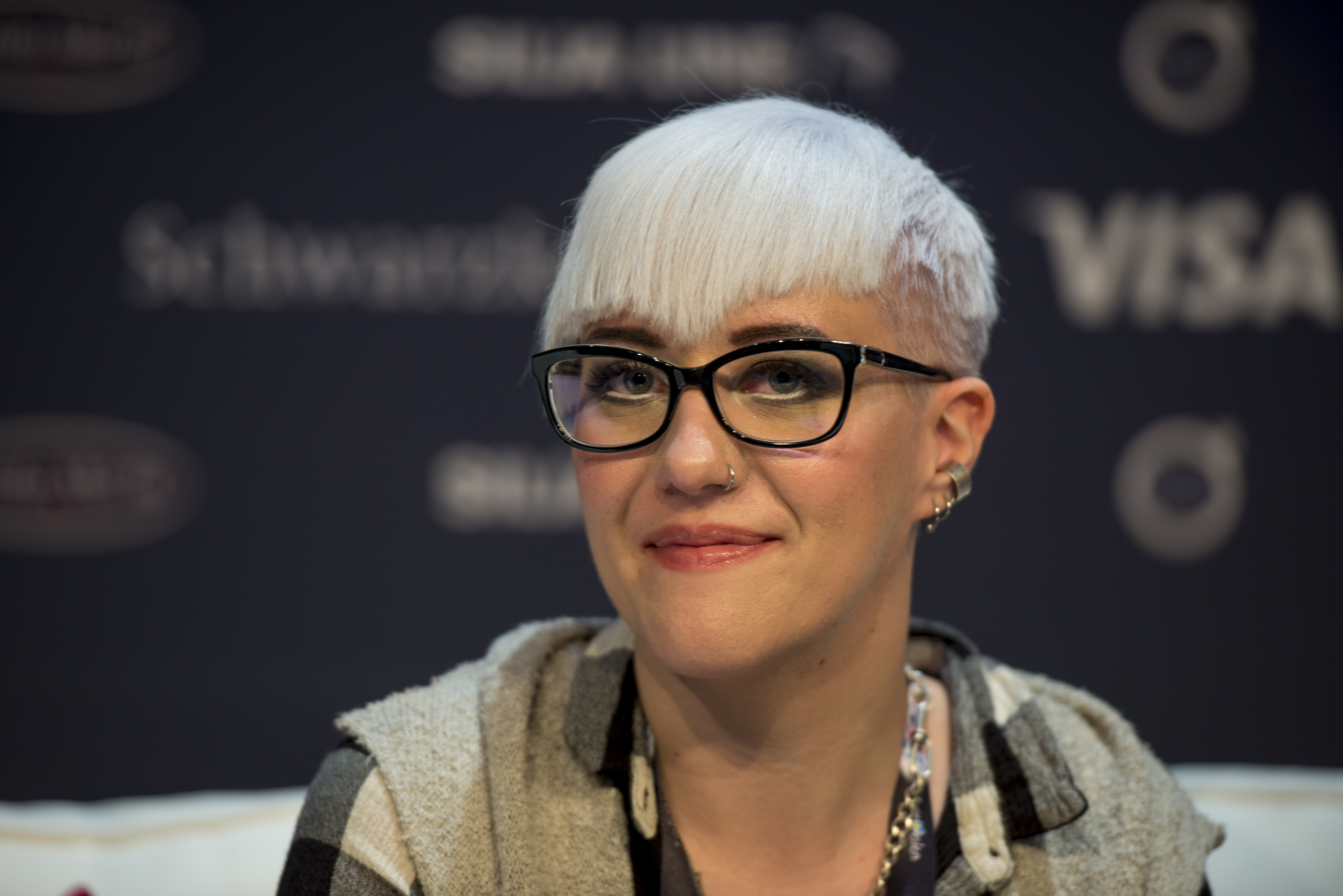 Nina Kraljić at a Meet & Greet during the Eurovision Song Contest 2016 in Stockholm. (Help translate this text)